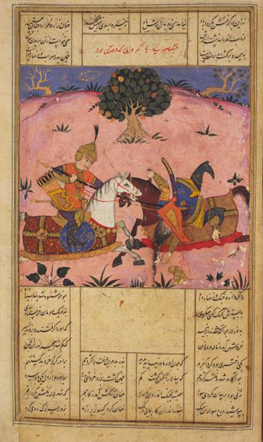 Sohrab fights Gurdafarid